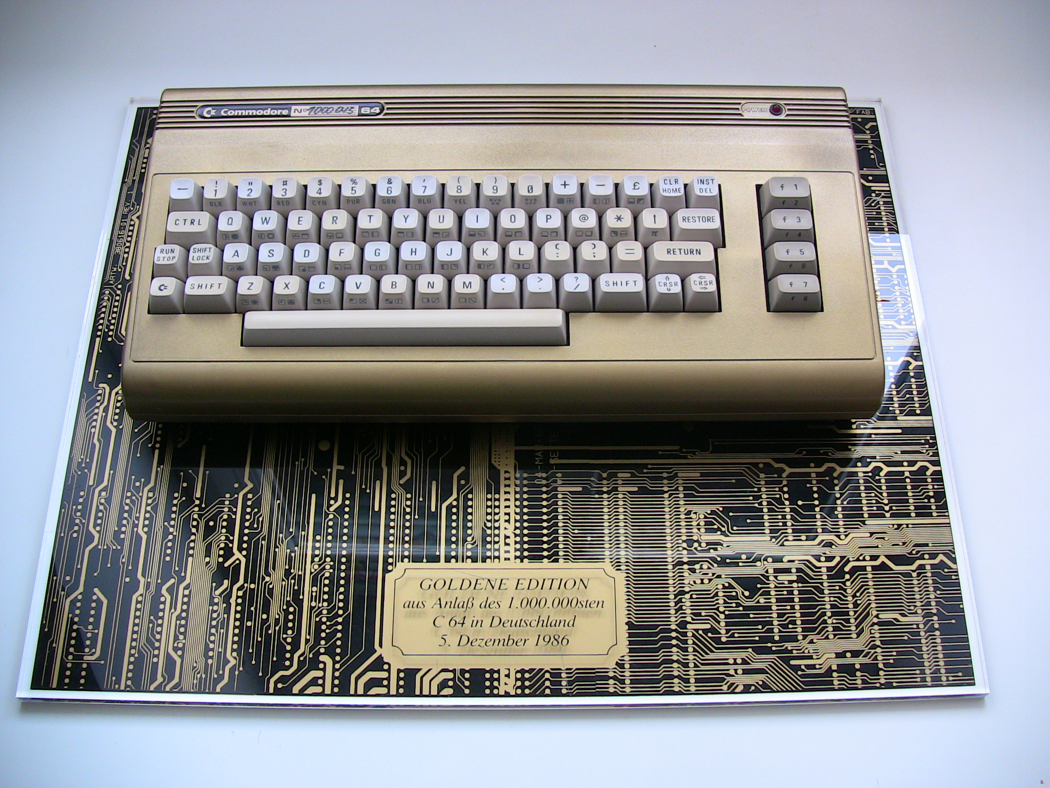 Commodore 64 Golden Edition in Germany. ("Goldene Edition aus Anlass des 1.000.000sten C 64 in Deutschland, 5. Dezember 1986. (Uploader assumes that factual text- including appearance- probably falls under Threshold of Originality under German law, but this is not entirely clear.)